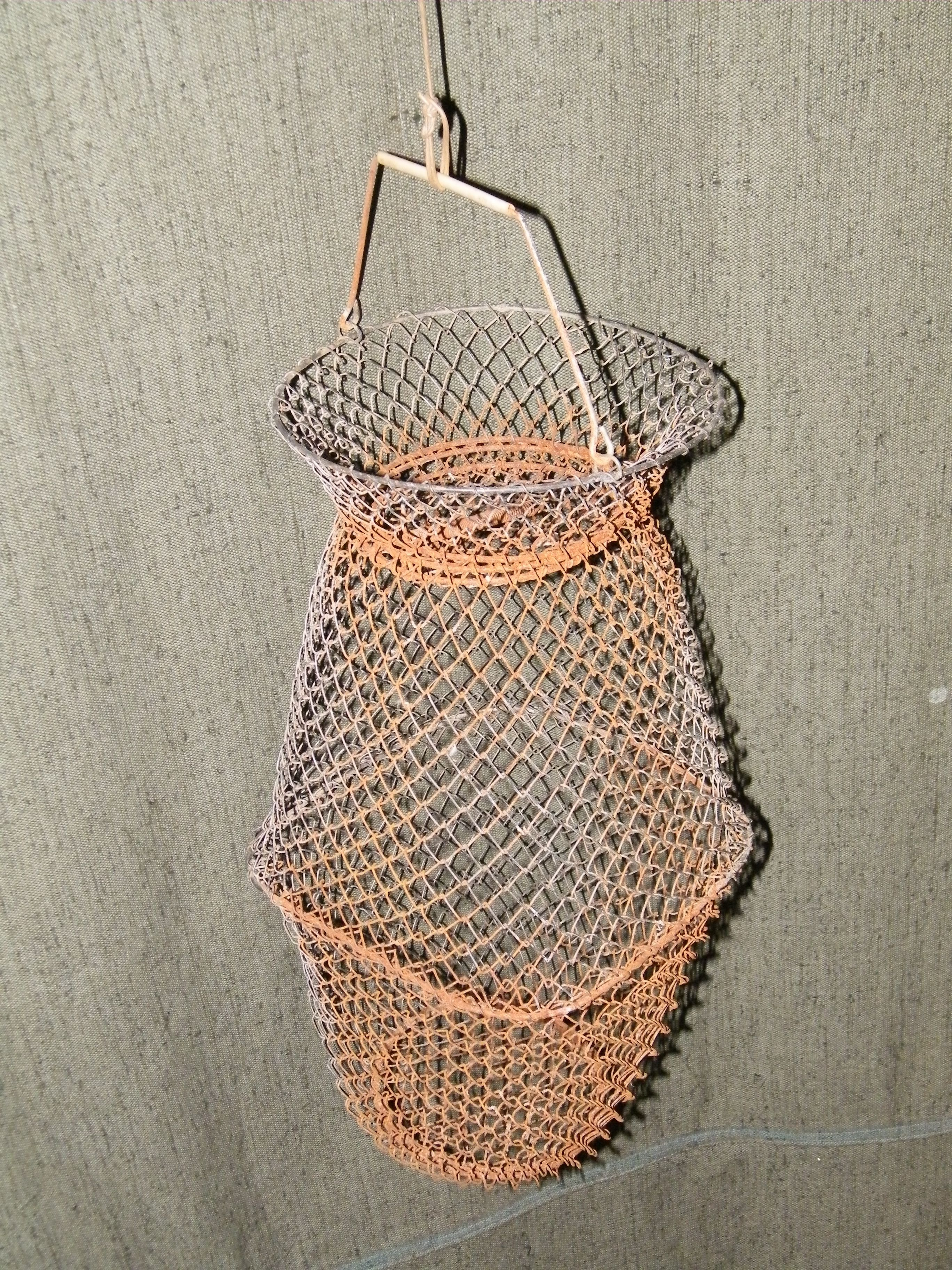 Садок рыболовный